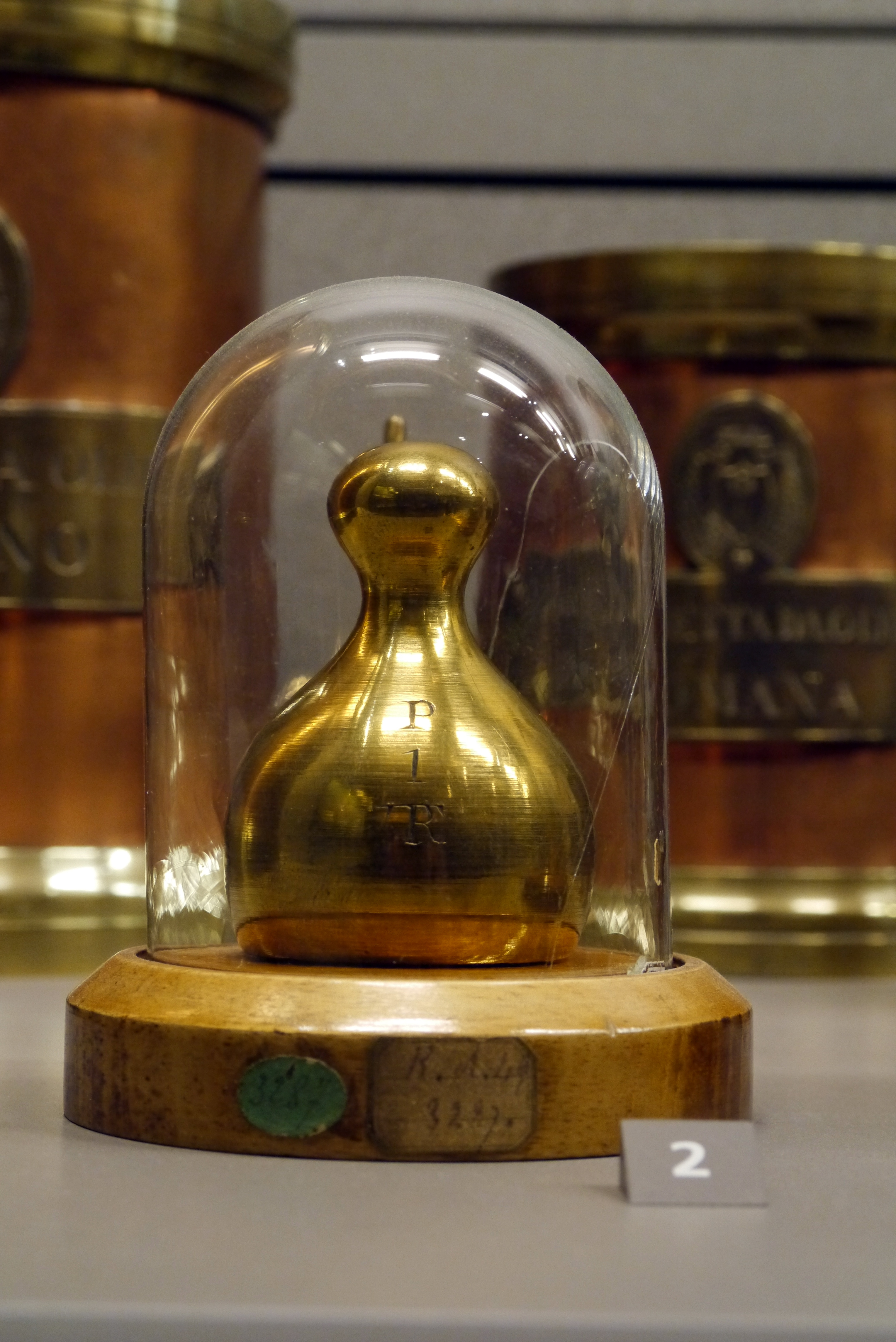 One pound avoirdupois weight, England, c. 1800.